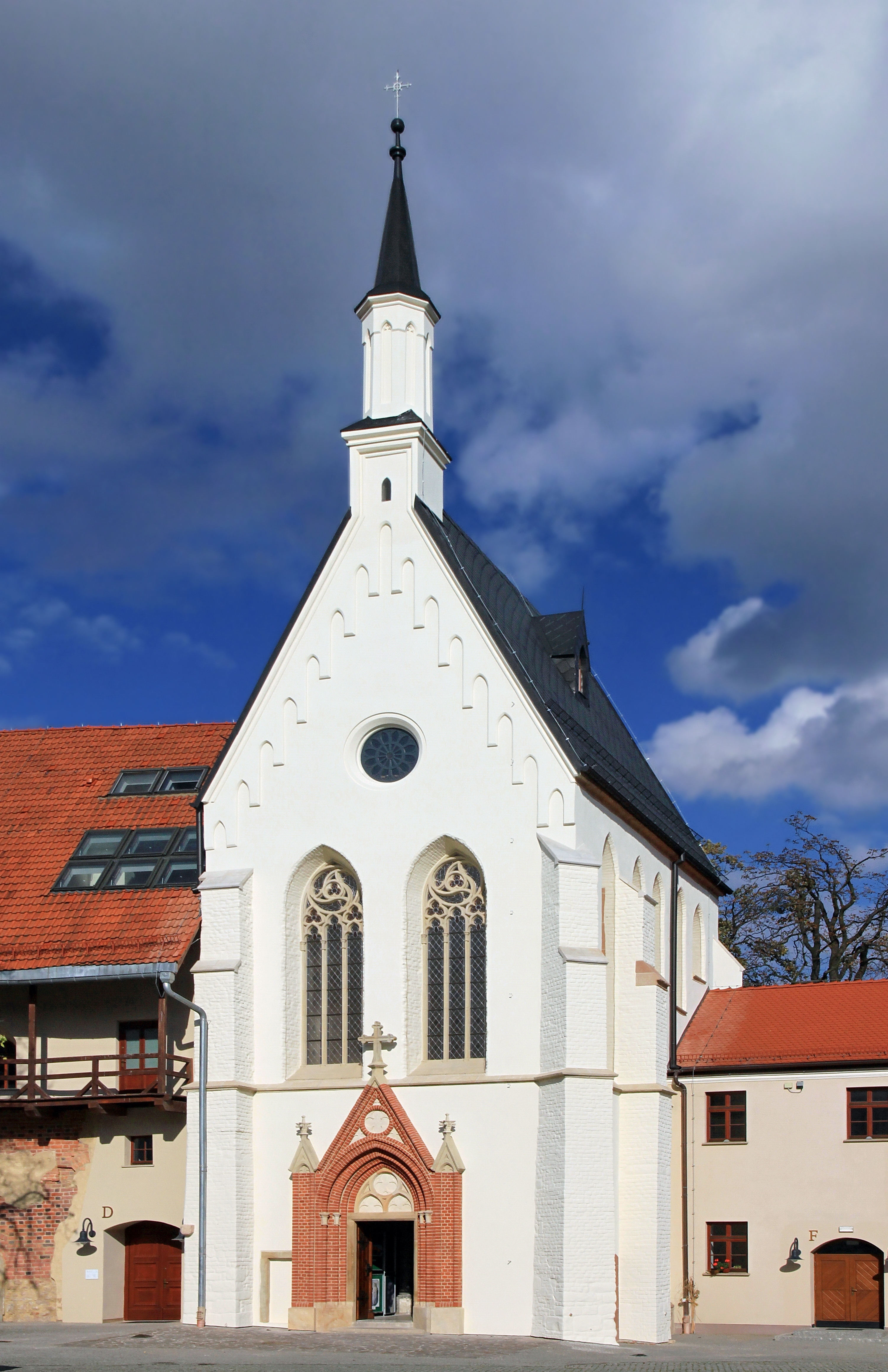 Racibórz, Chapel of St. Thomas Becket, build in 1290, 1858